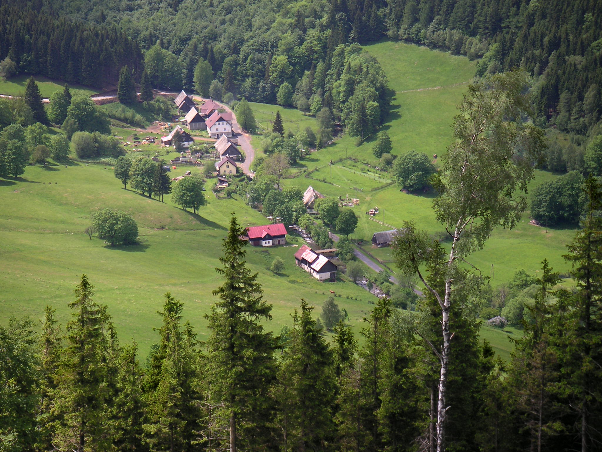 High part of Bielce willage in Kotlina Klodzka (Poland), view from Kowadlo peak